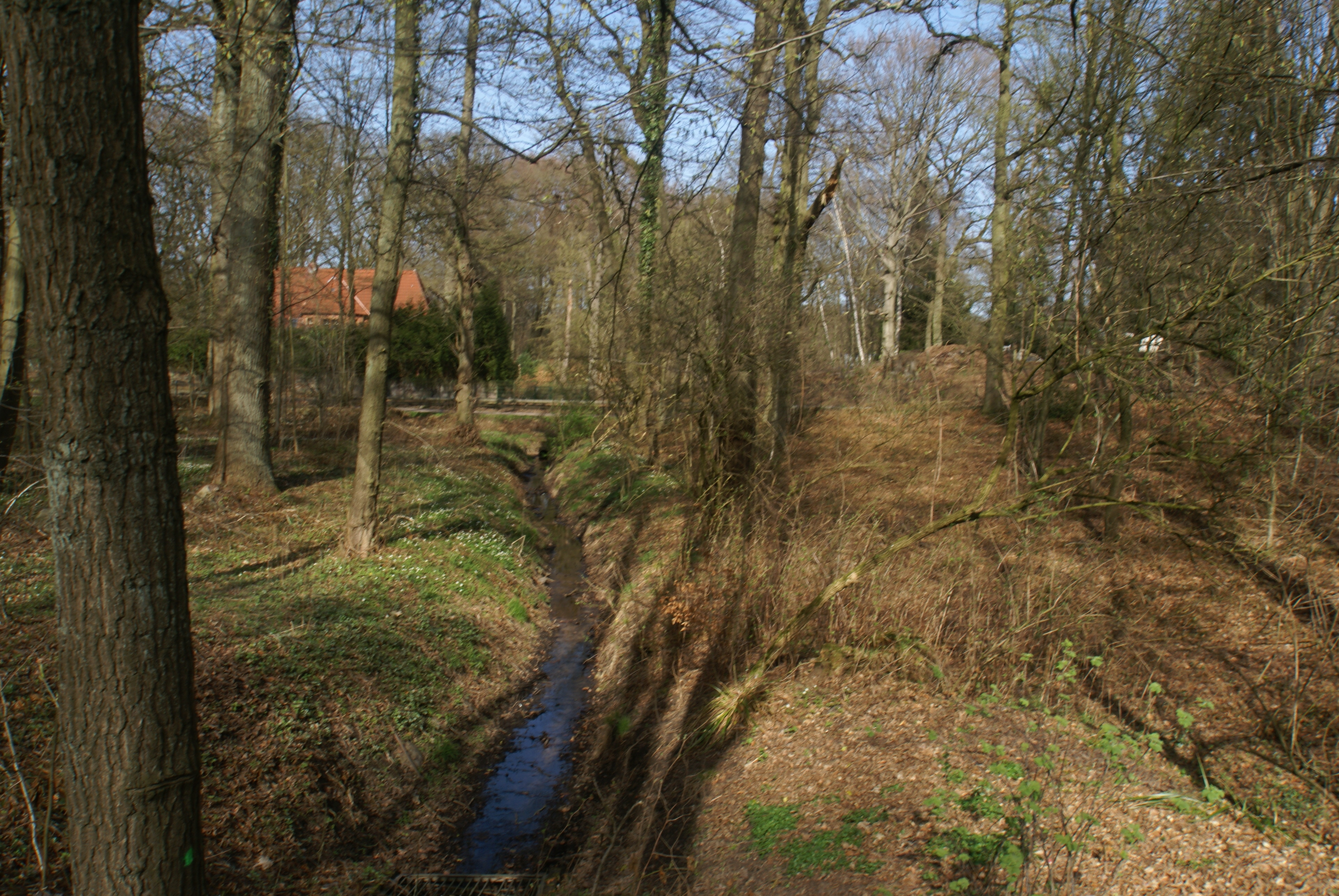 Hamburg (Volksdorf), Germany: The river Gussau by the Waldweg""